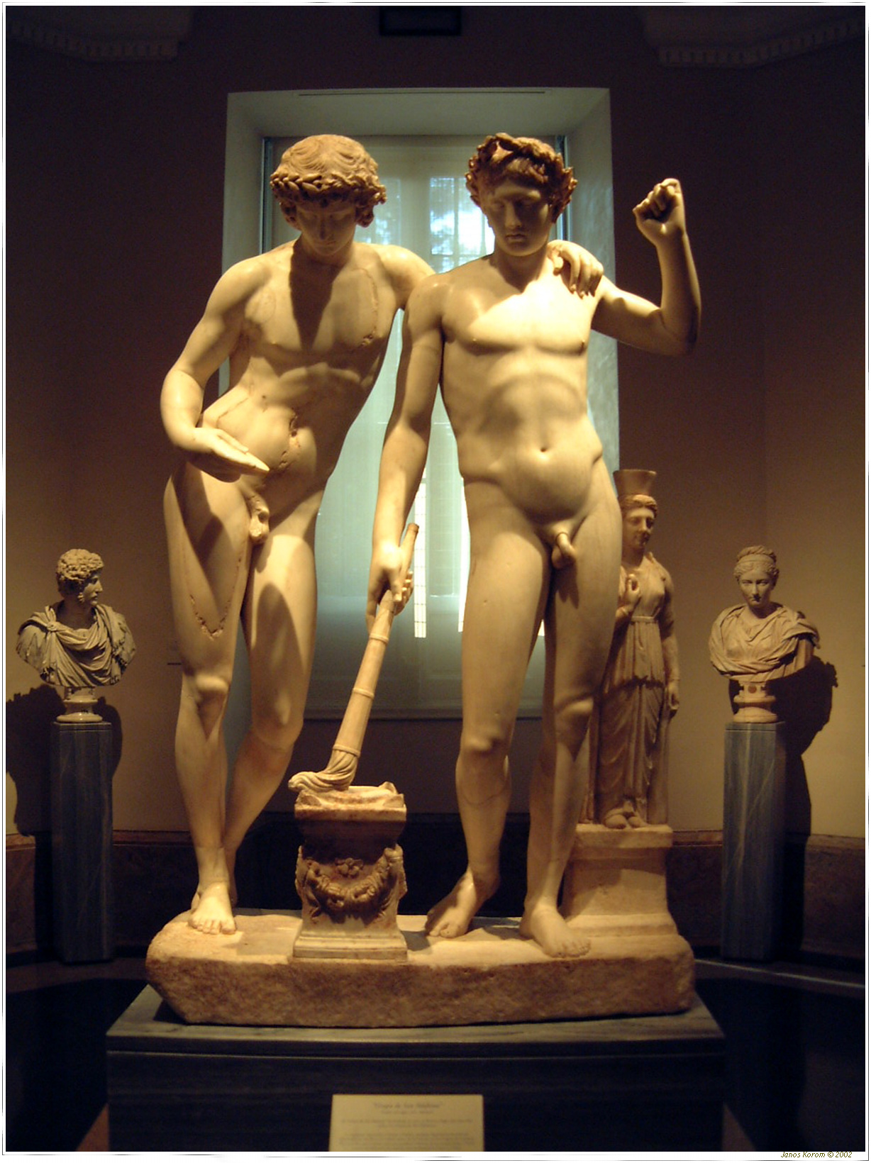 Roman sculptural group showing Castor and Pollux (or, according to other authors, Orestes and Pylades).